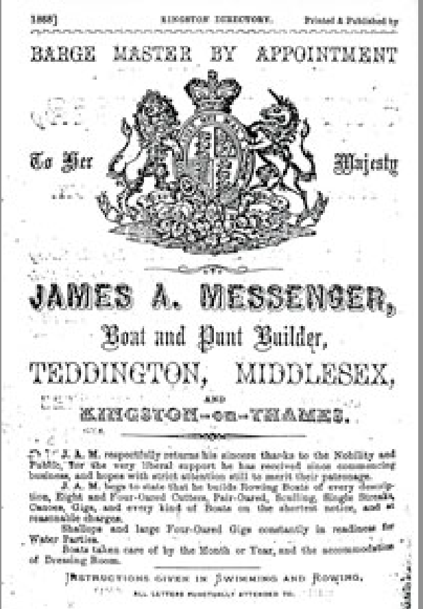 The poster is self explanatory. It reads --- Barge Master by appointment To Her Majesty —— James A. Messenger Boat and Punt Builder Teddington, Middlesex And Kingston-on-Thames (The rest of the text is difficult to decipher accurately) The barge master to the Queen was considered the most eminent of the Queen’s watermen